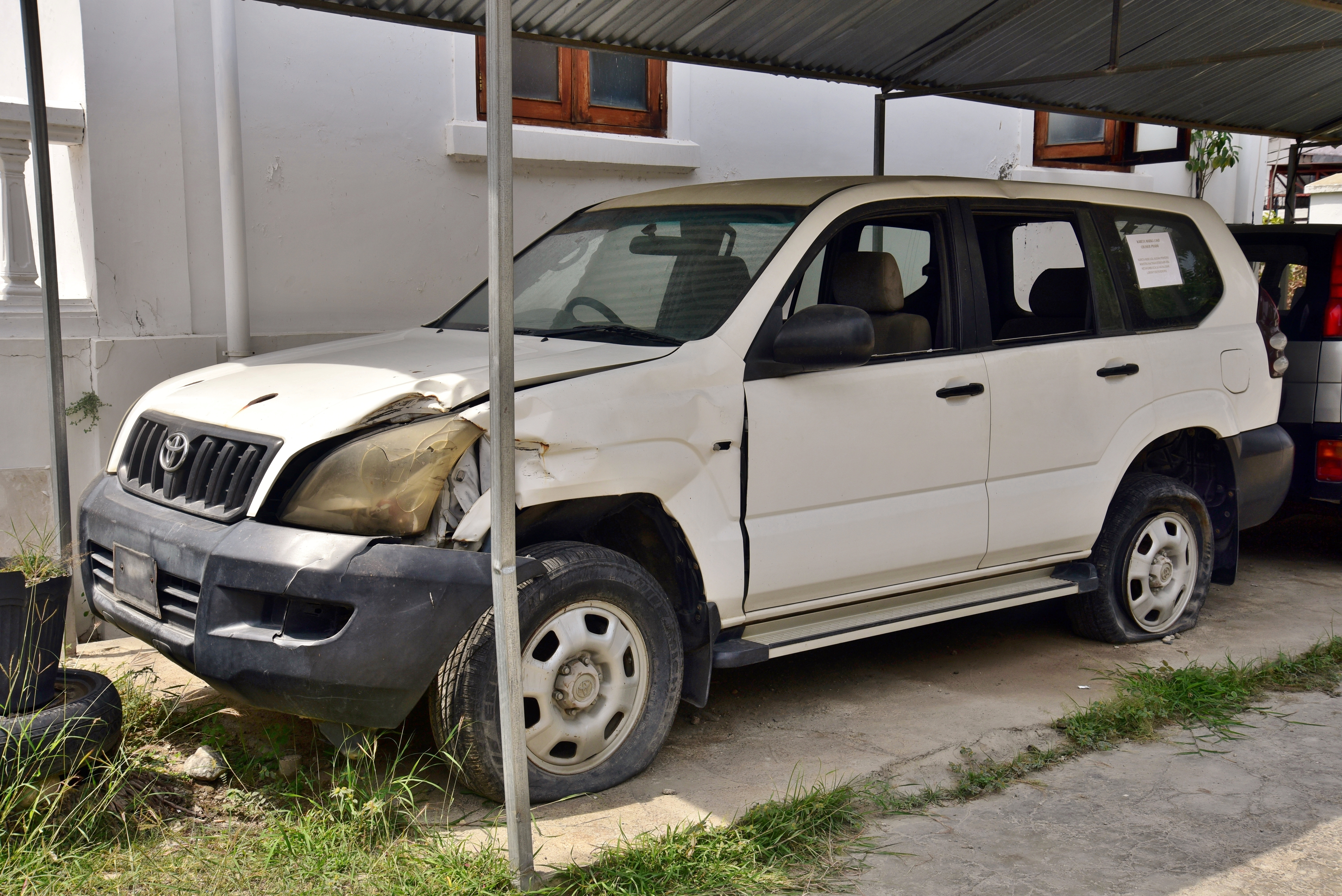 The Toyota Land Cruiser Prado in which the then East Timorese Prime Minister Xanana Gusmão was travelling when he was attacked during the East Timorese assassination attempts on 11 February 2008; he survived.